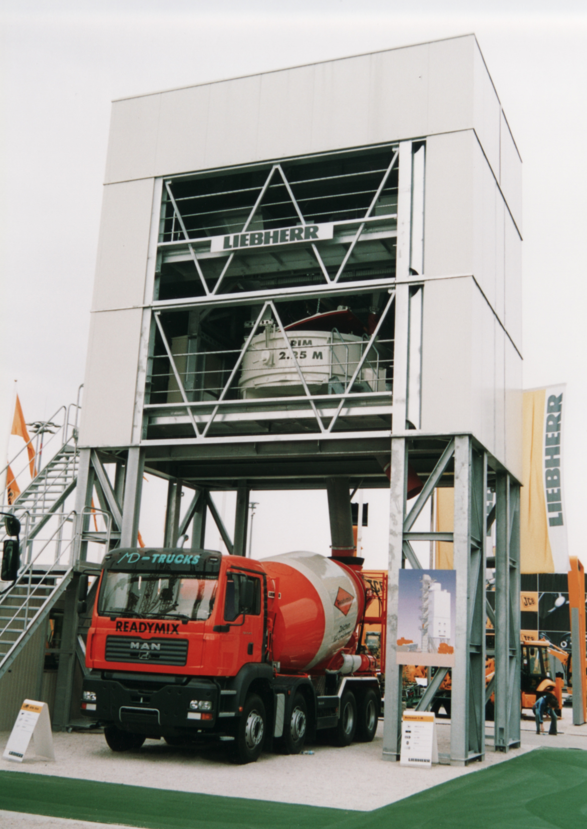 A Liebherr concrete batch plant